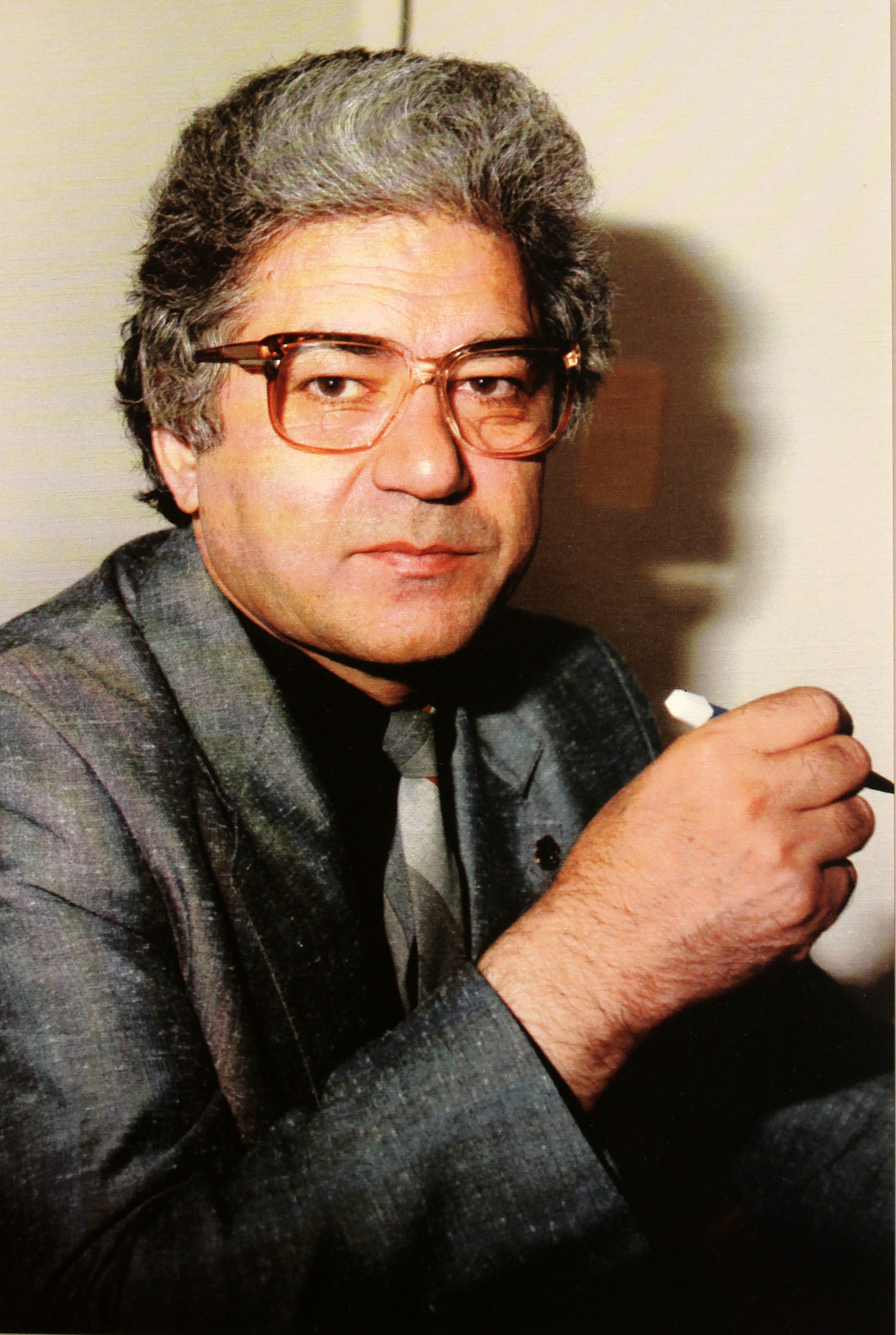 Aramayis Sahakyan